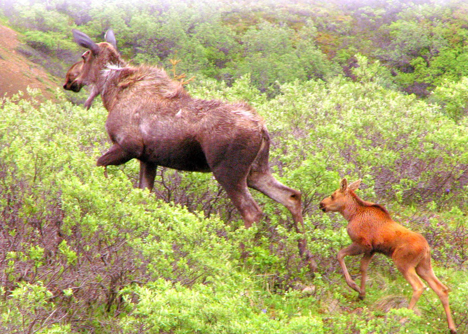 Mother Moose & little one. The litlle guy is really using those long, skinny legs.